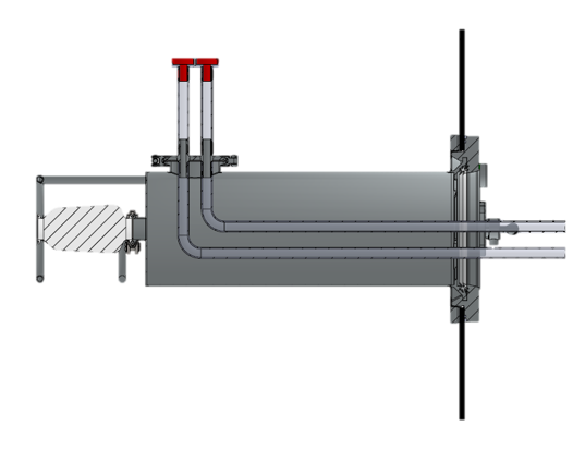 Sectional model of a liquid beta transfer container